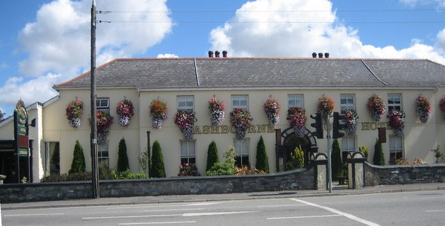 Ashbourne House Hotel Ashbourne House Hotel dates back to the 1850's